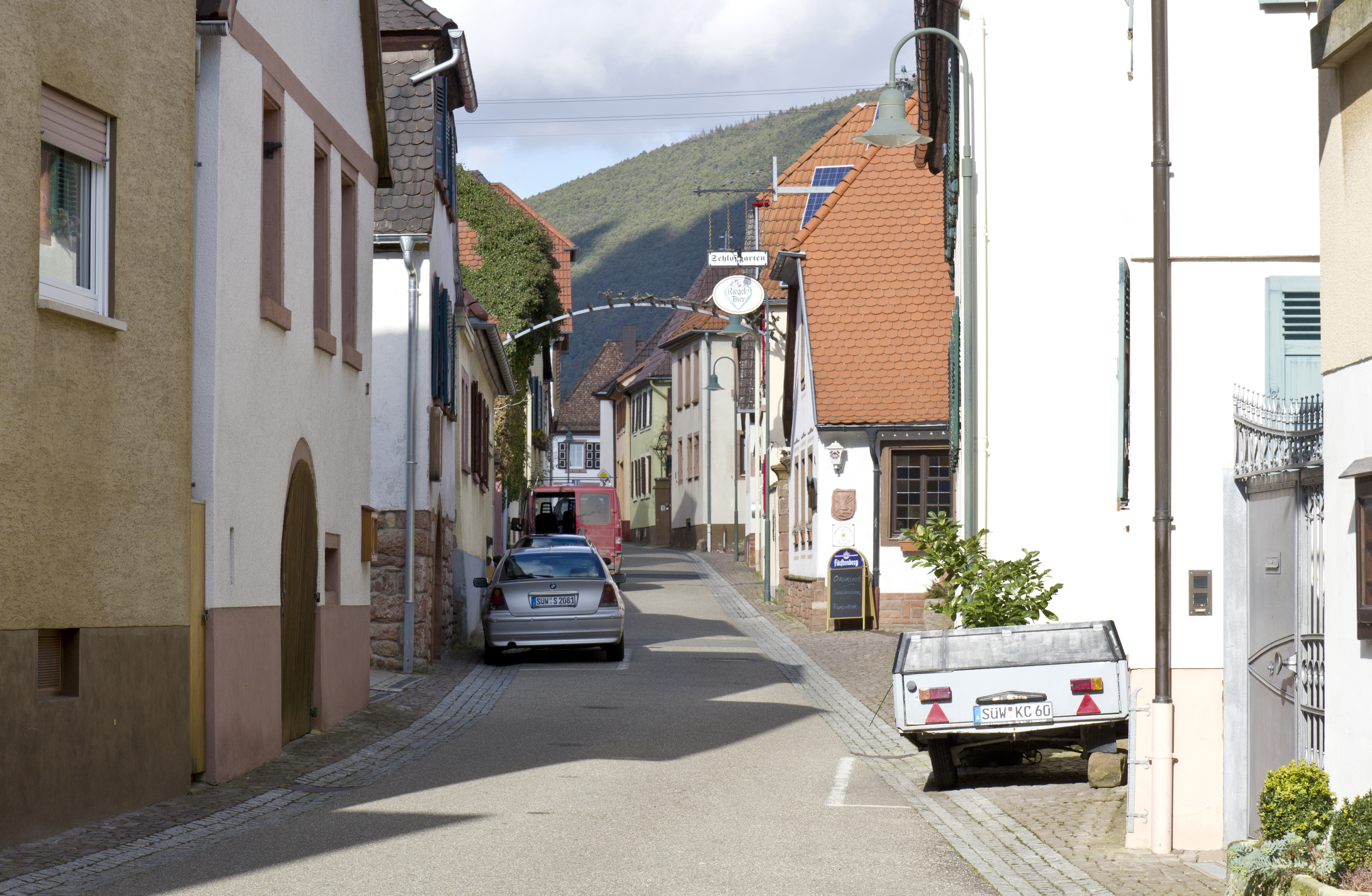 Burrweiler, Hauptstrasse ("Main Street")